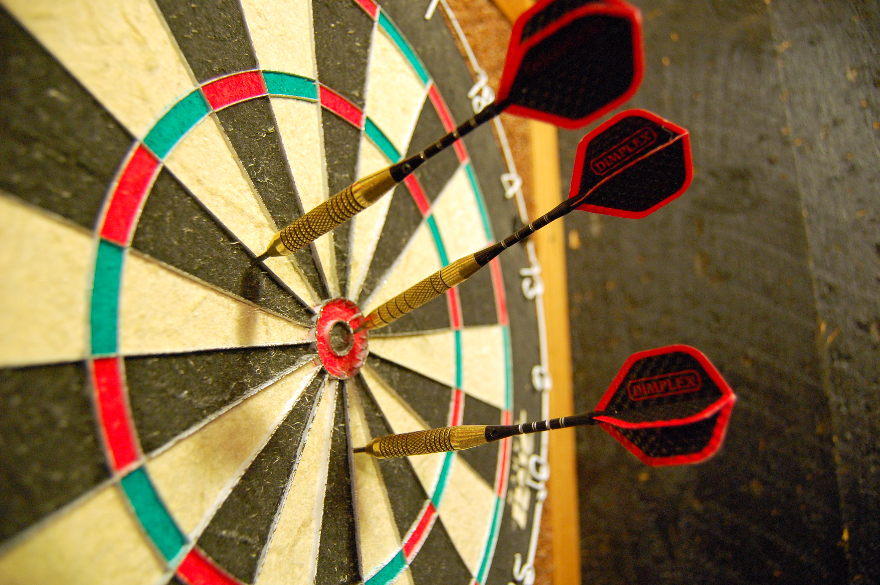 Original description was I took this shot while playing darts with friends at Desperate Annie's in Saratoga Springs, NY.